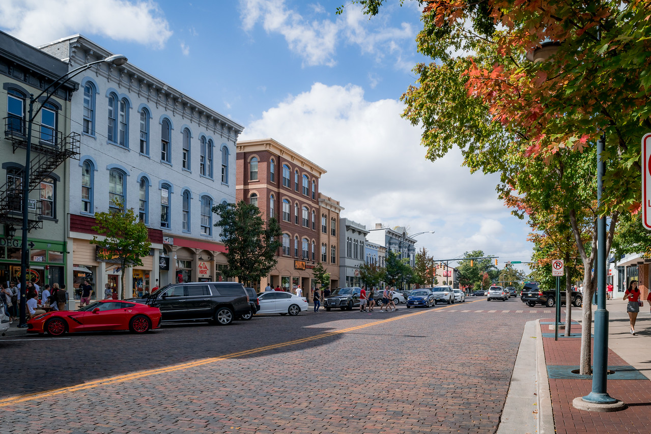 Uptown High Street, the heart of the Oxford community with locally owned restaurants, bars, and shops.